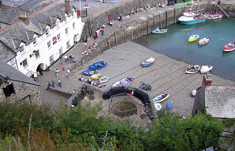 The tiny harbour at the village of Clovelly, North Devon, England. Taken by Adrian Pingstone in July 2004 and released to the public domain.